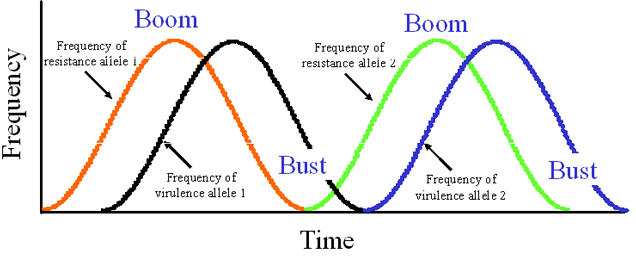 Content was taken from Google Images